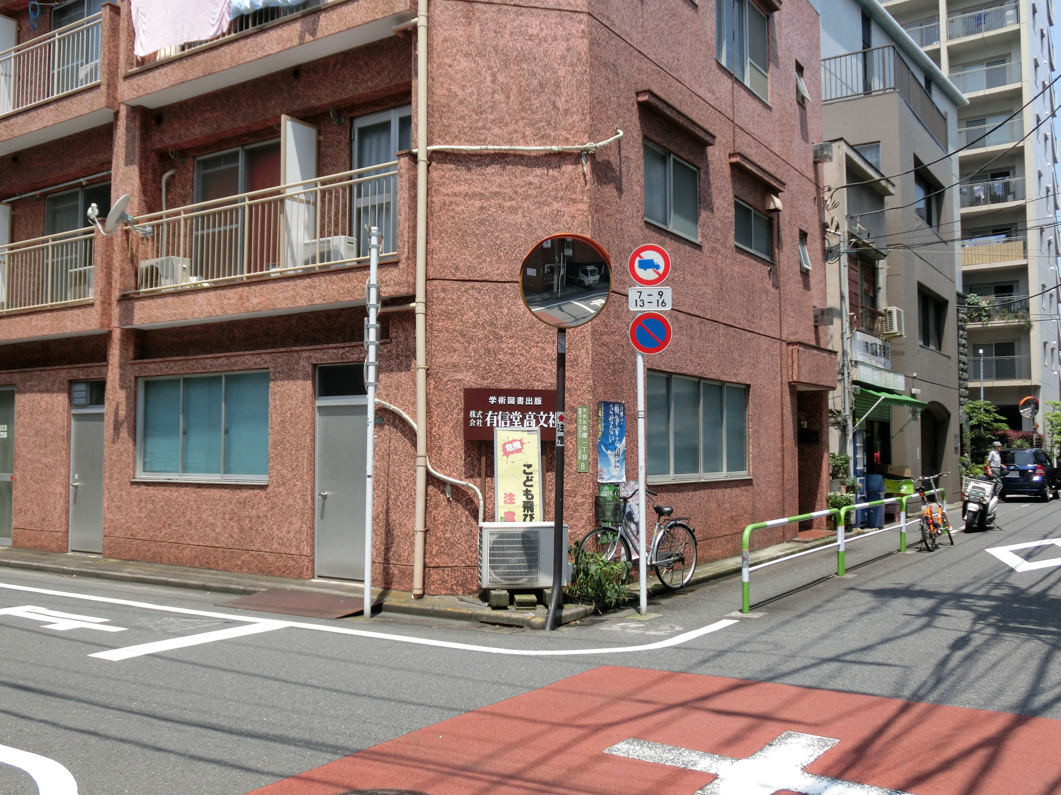 Yushindo Kobunsha Head Office